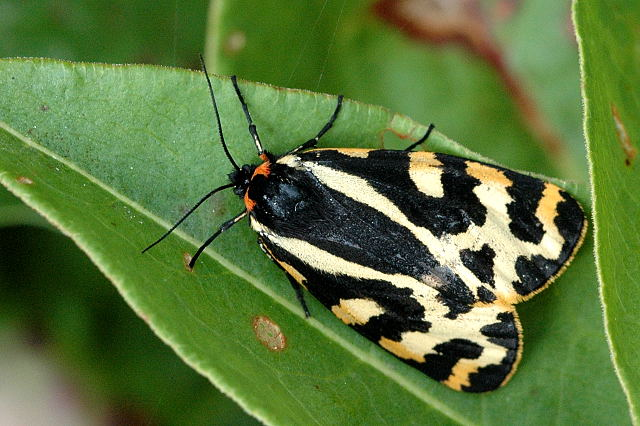 Picture taken in Commanster, Belgian High Ardennes . Species: Parasemia plantaginis